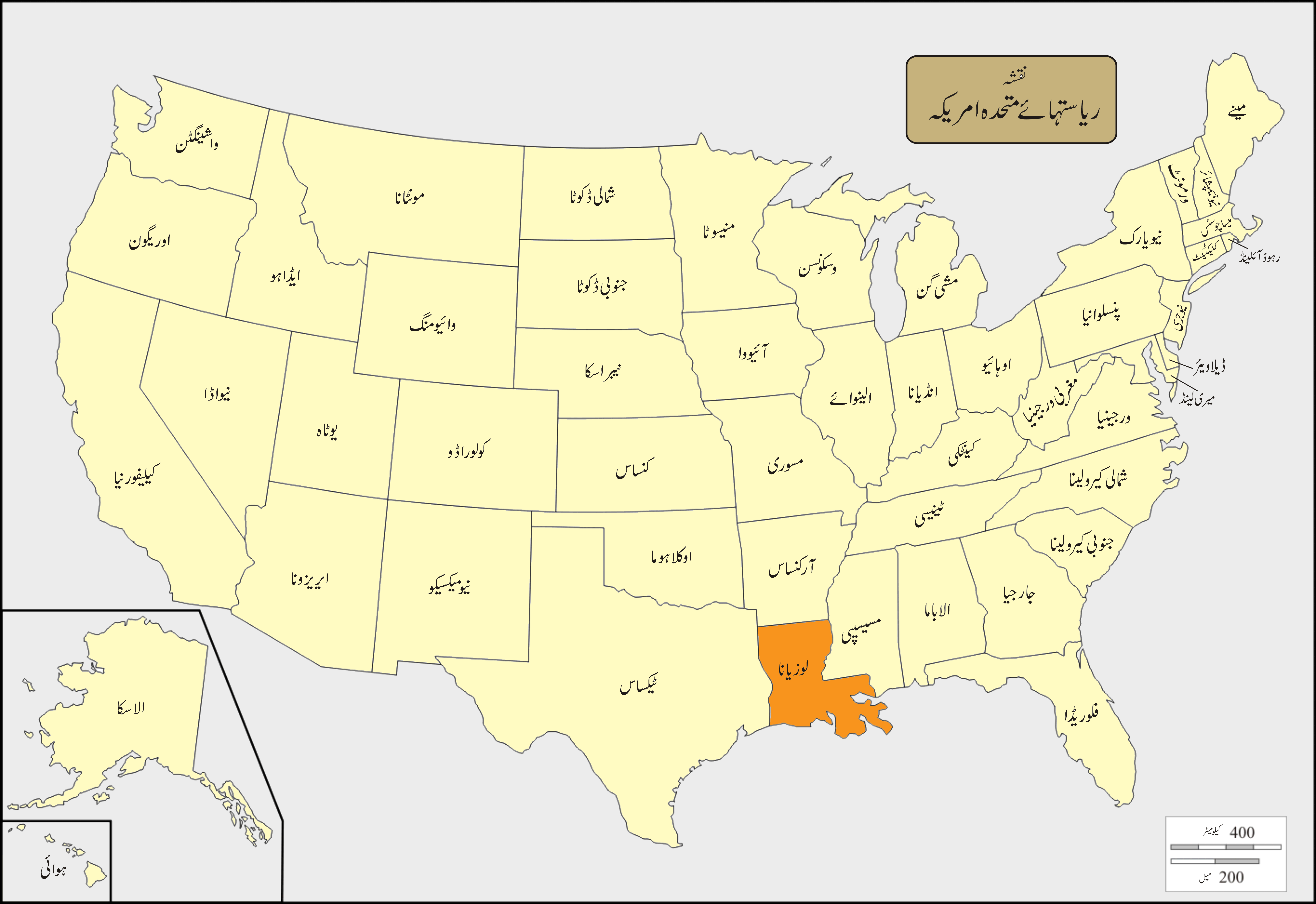 USA Names Louisiana